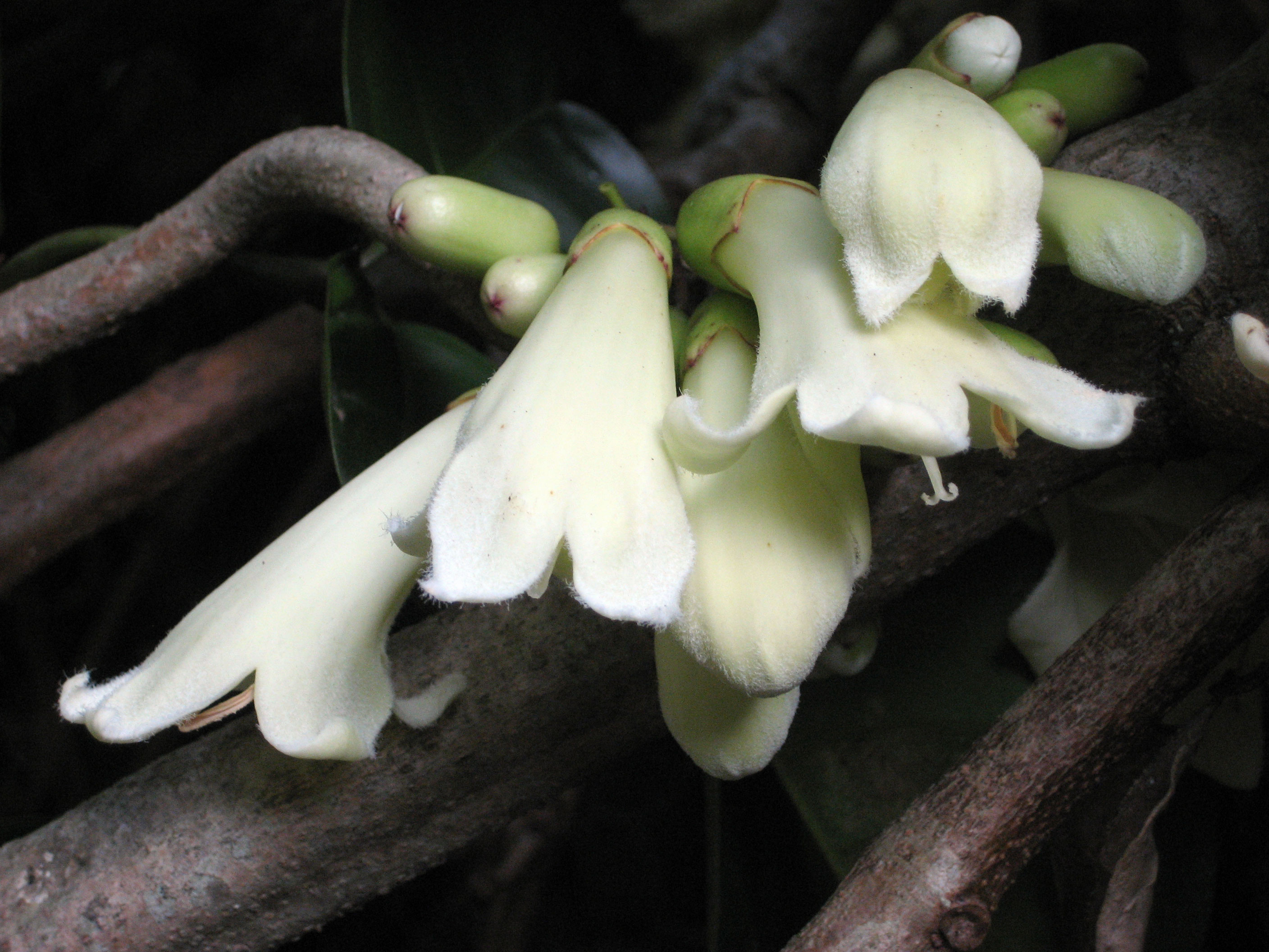 Tecomanthe speciosa, Auckland, New Zealand. Clusters of flowers arise directly from the stems of this rampant forest vine in autumn or early winter